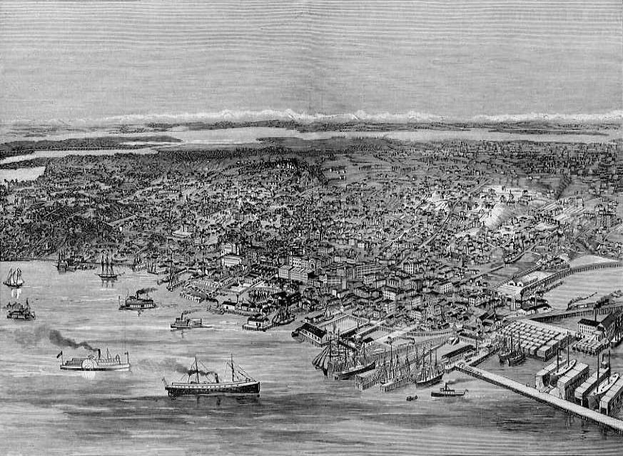 Bird's-eye View of Seattle, Washington Territory, a wood engraving published in Harper's Weekly, June 15, 1889.